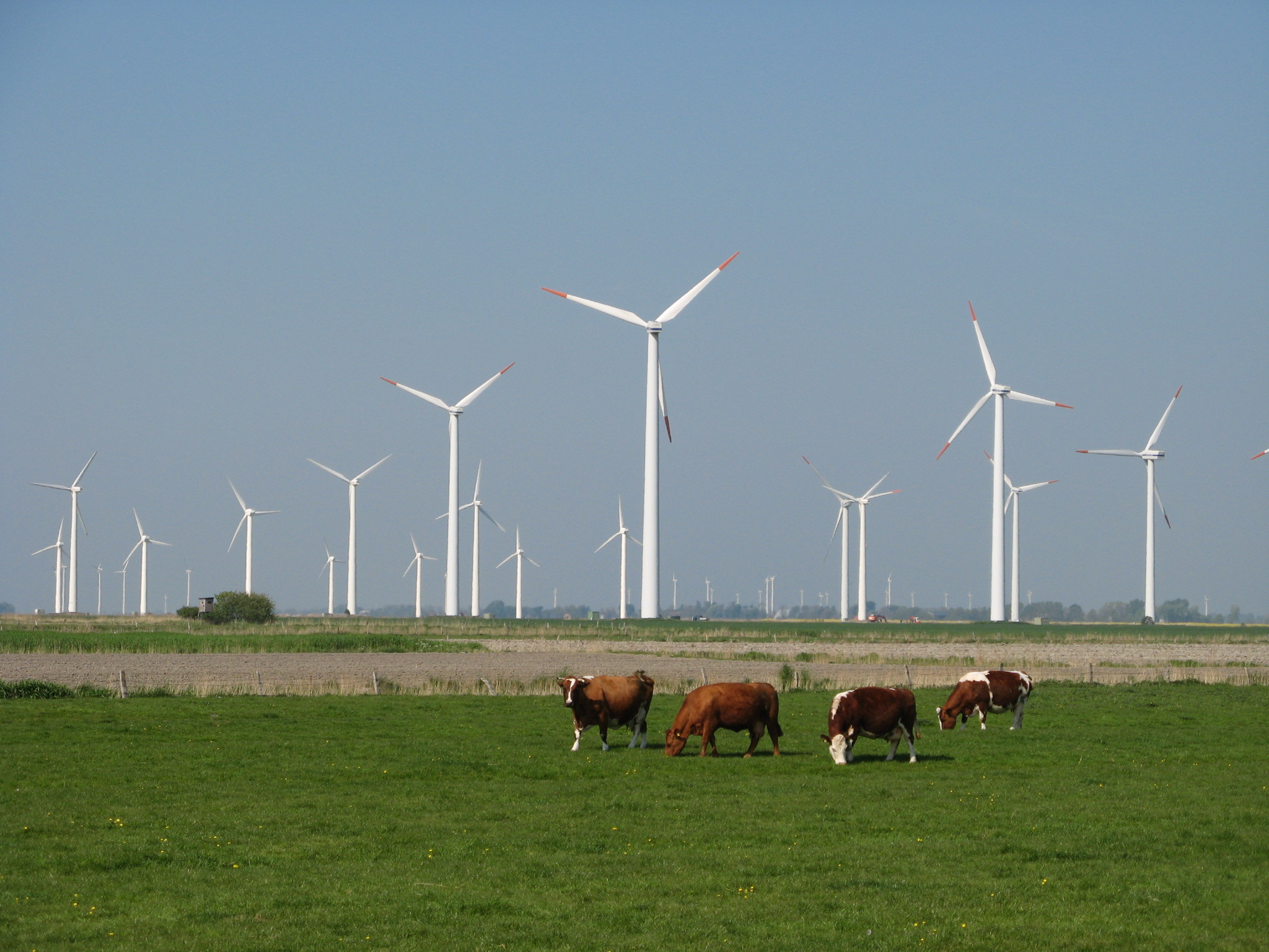 cows and wind energy turbine, Osterwurth